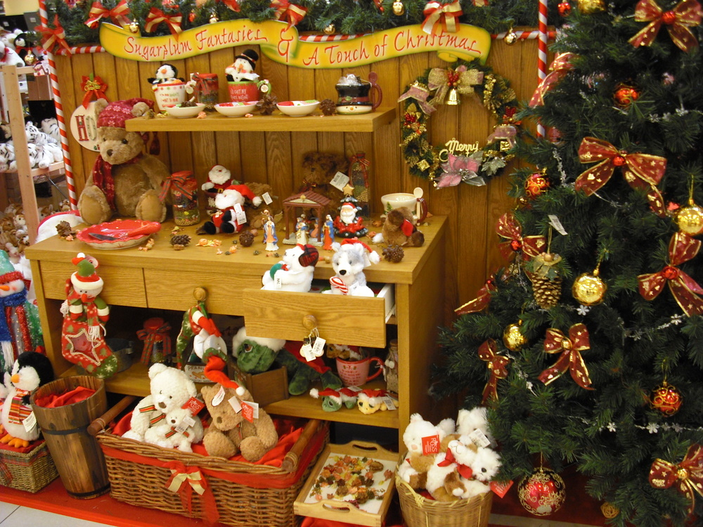 Colorful Christmas Greetings from Malaysia! Weihnachtsgrüße aus Malaysia!